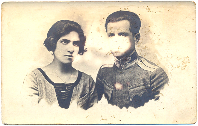 Bulgarian revolutionaire, member of the IMRO Boris Bunev.